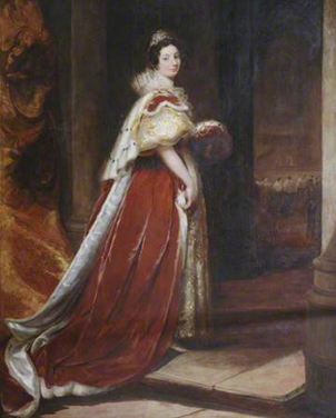 Lady Rolle (Louisa Trefusis) (1794-1885), wife of John Rolle, 1st Baron Rolle (1750-1842) in her peeress coronation robes